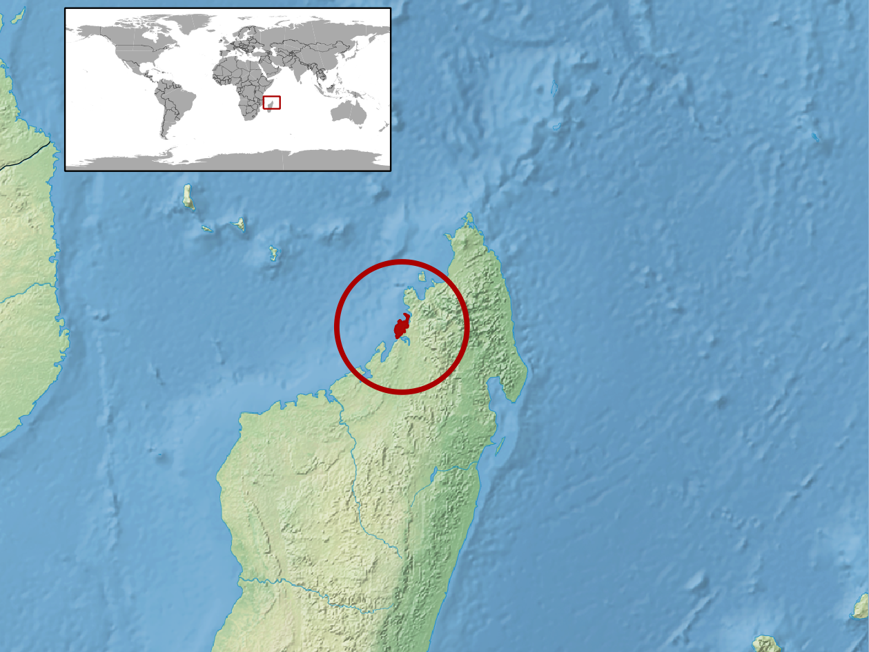 geographic distribution of Pseudoacontias menamainty